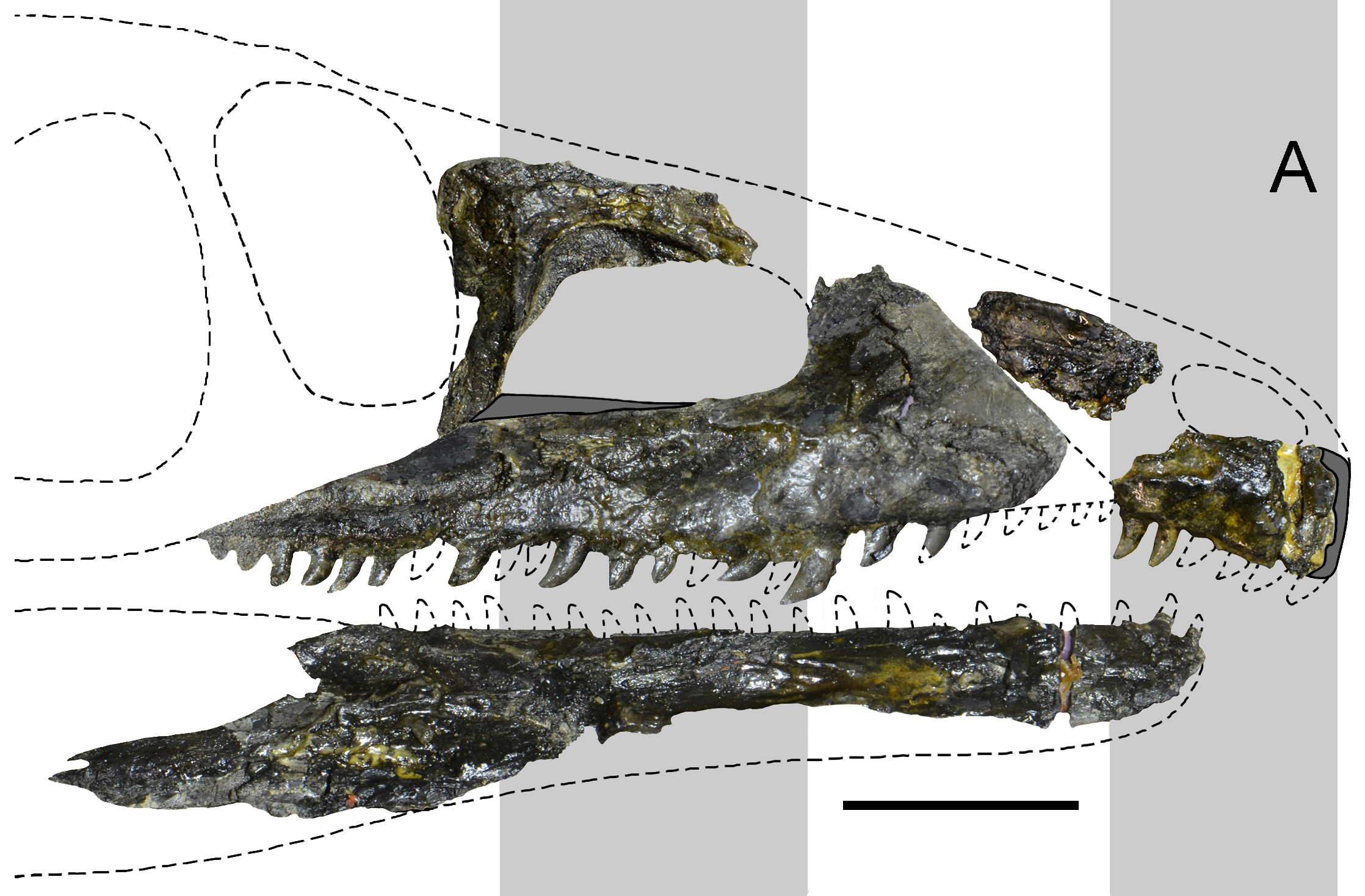 Reconstruction of the snout of Tasmaniosaurus triassicus (UTGD 54655) in lateral view. Note that all the bones of Tasmaniosaurus triassicus are shown in medial view, with exception of the premaxilla, which is shown in lateral view. Abbreviations: anp, anterior process of the maxilla length; aof, antorbital fenestra length; pmx, premaxilla length. Scale bar equals 1 cm (A).